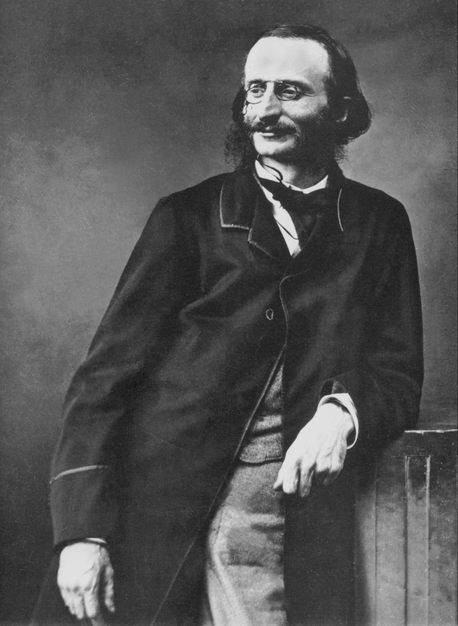 Photography of Jacques Offenbach by Félix Nadar